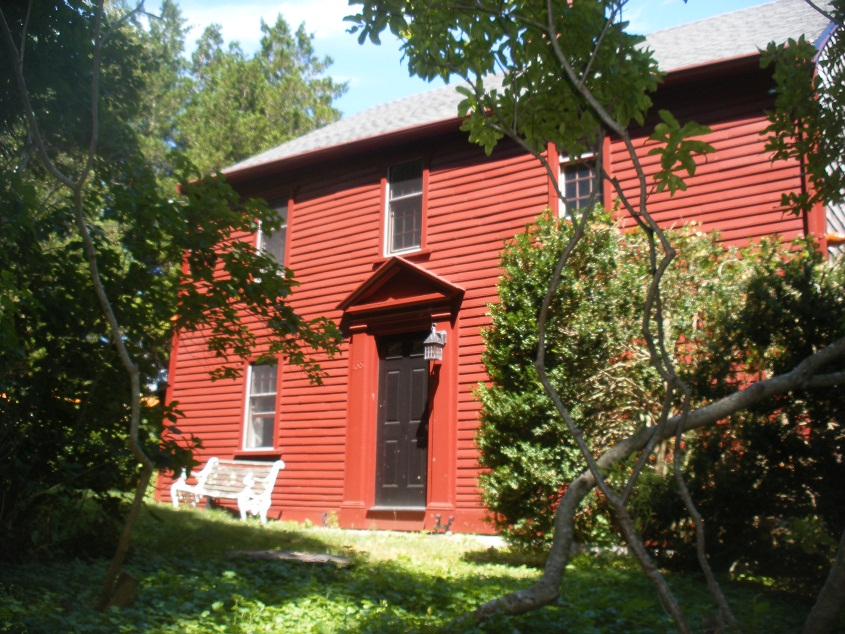 Philip Sherman house, Portsmouth, Rhode Island